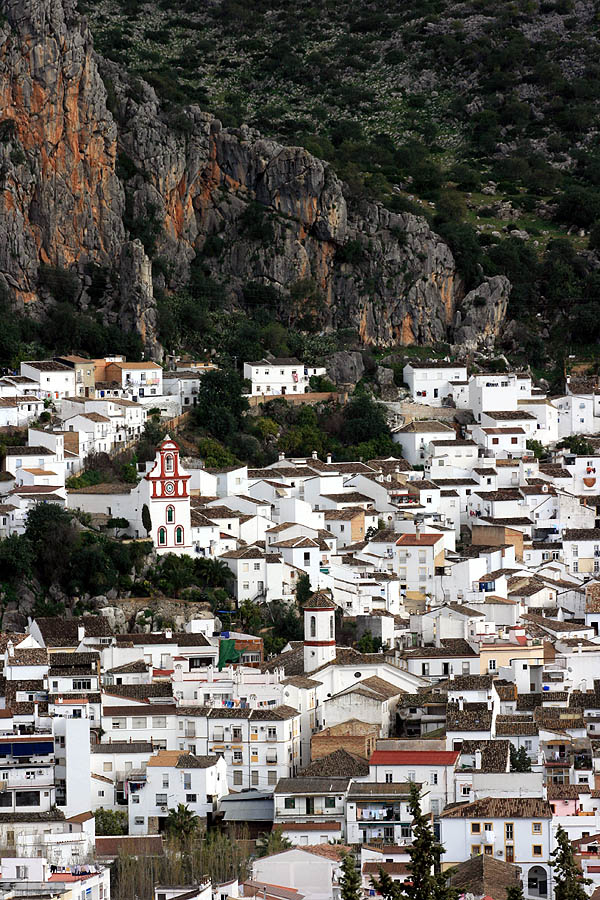 The Andalusian town of Ubrique, one of the many pueblos blancos (white towns) in the region.